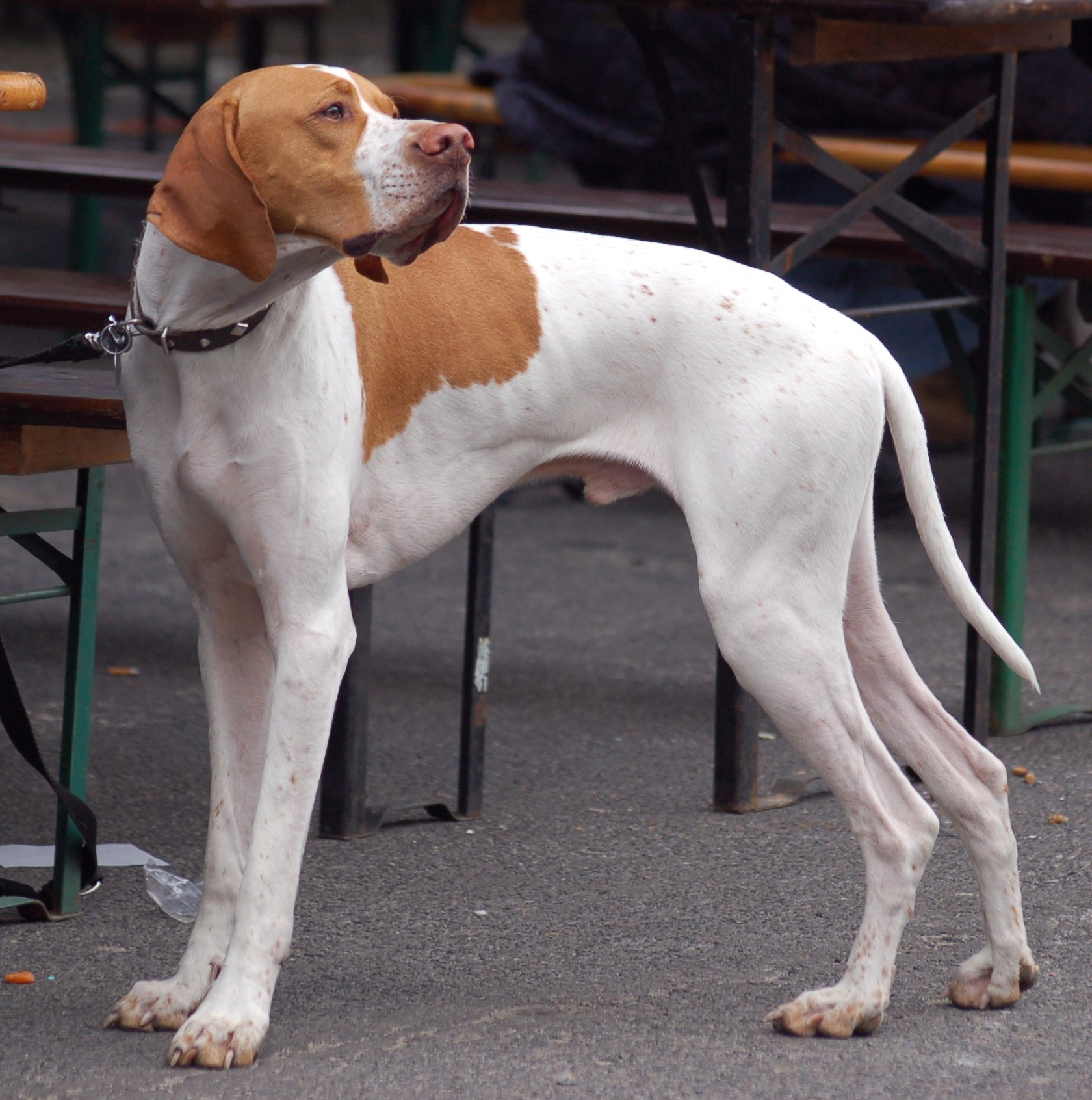 Pointer during dogs show in Katowice, Poland